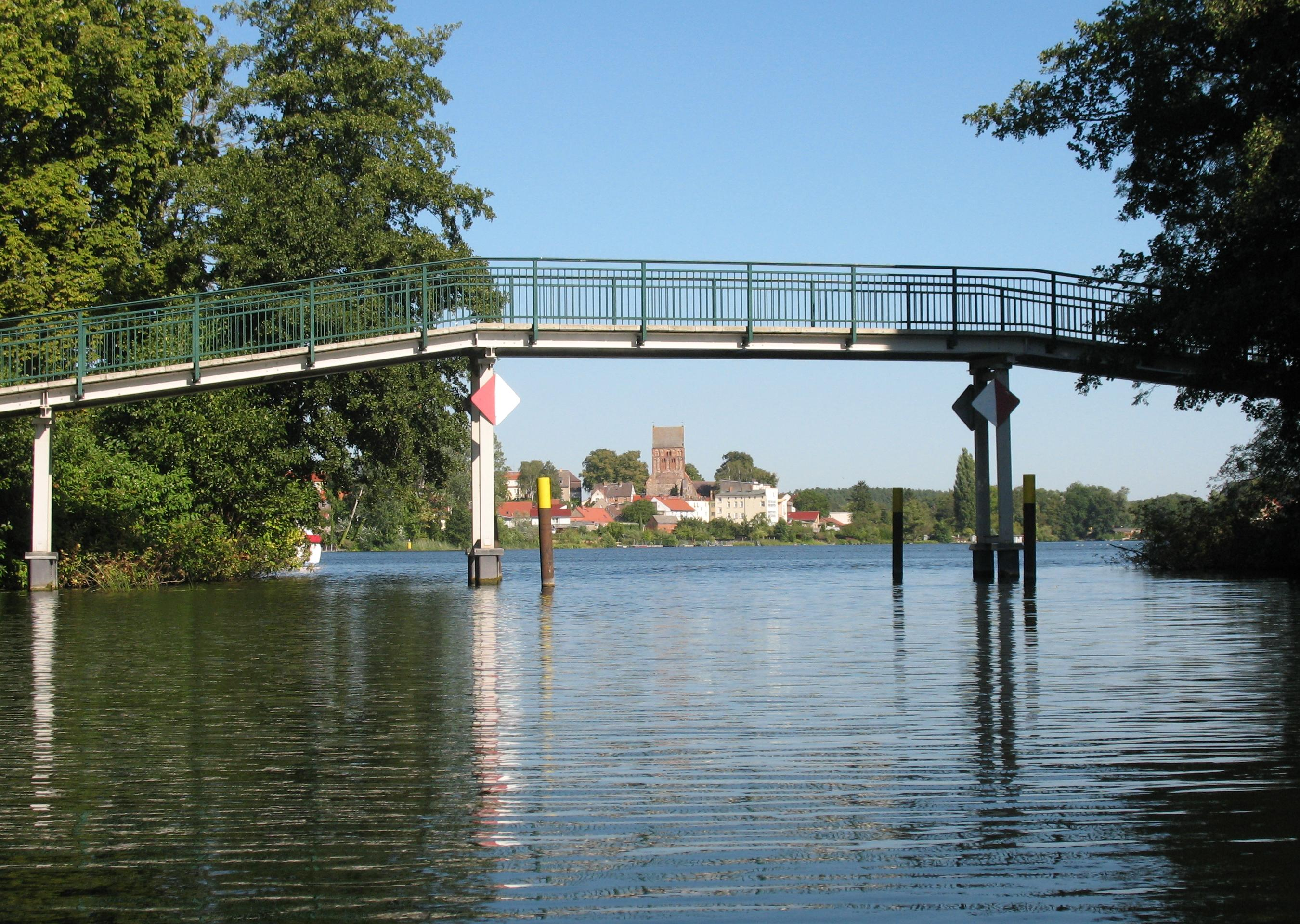 Lake in Lychen in Brandenburg, Germany